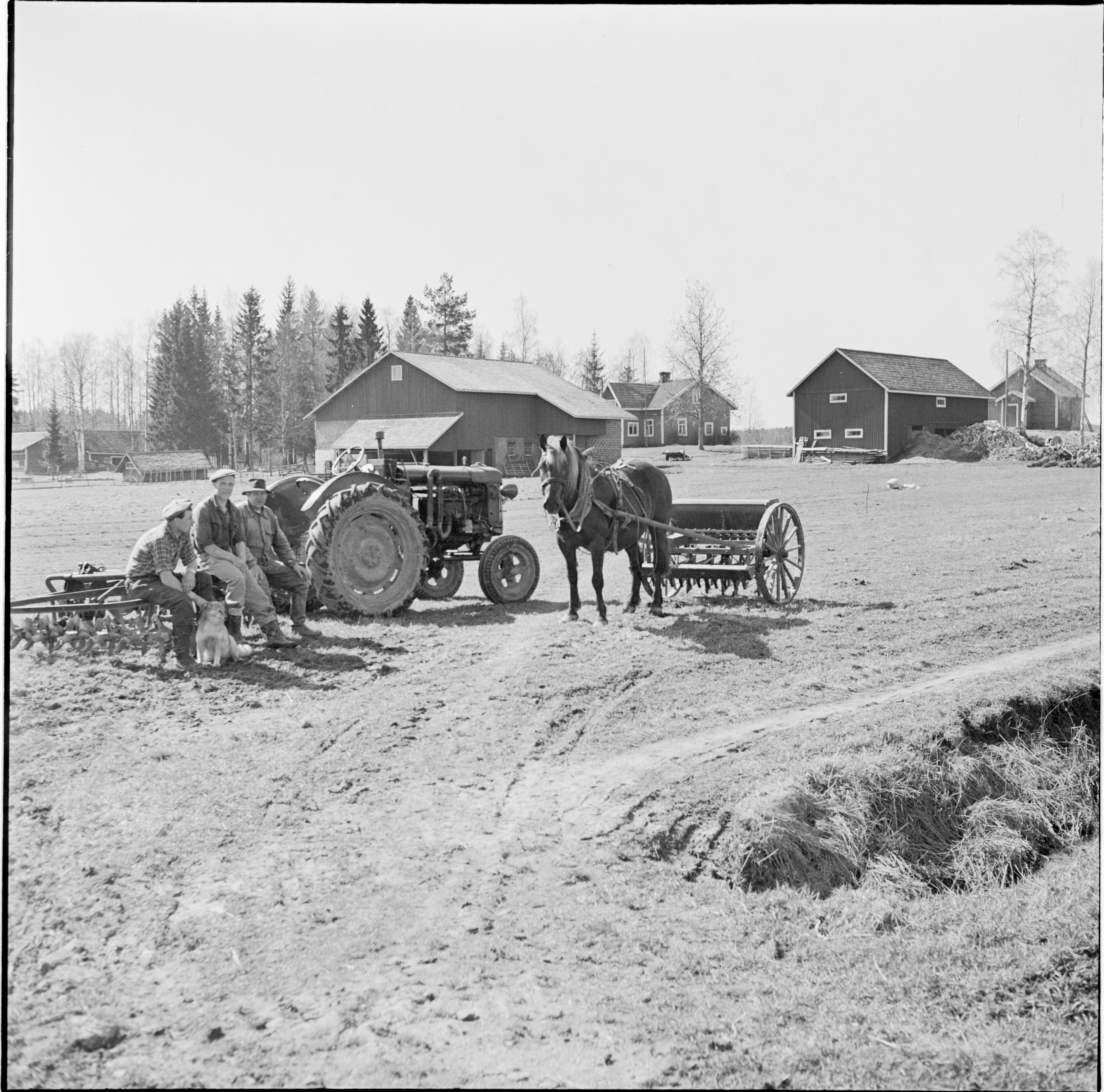 Traktori ja hevonen toukotöissä. Alkuperäinen kuvateksti: "Toukotöiden välillä on istahdettu hieman levähtämään. Taustalla näkyy maanv. Ernesti Sainion tilan rakennuksia." (Kuluttajain lehti 19/1954, s. 1) photographer unknown / kuvaaja tuntematon 1954 Nurmijärvi, Uusimaa, Finland / Suomi Finnish Museum of Photography / Suomen valokuvataiteen museo